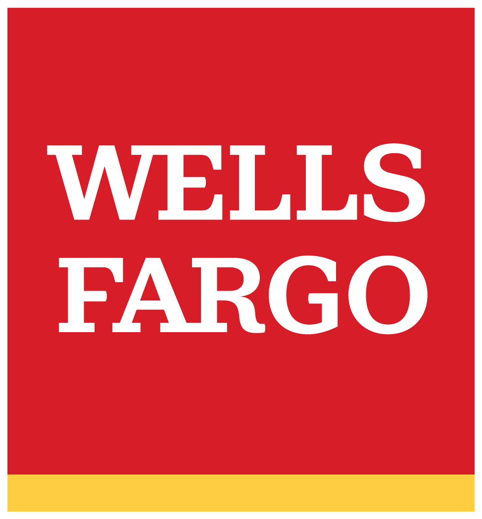 The new logo for Wells Fargo